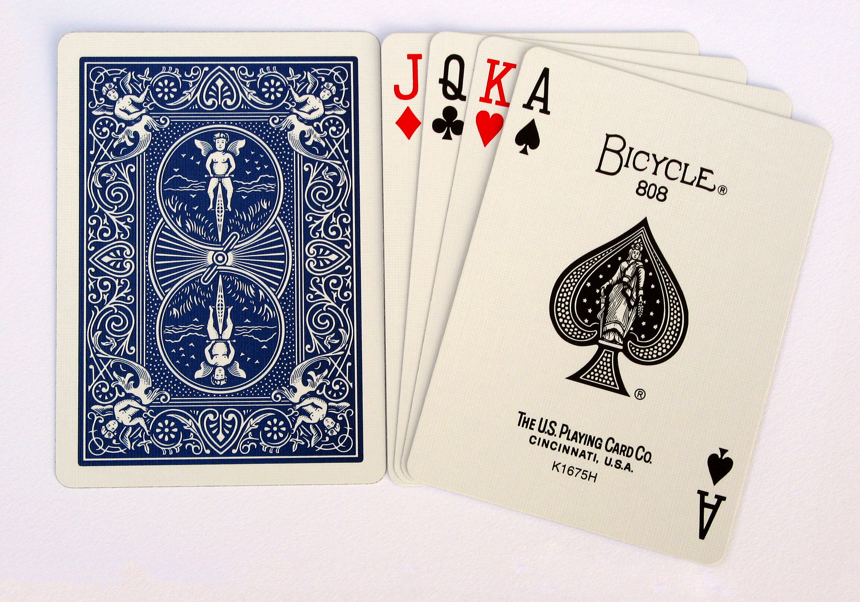 Edit of picture to illustrate rotation on FPNom